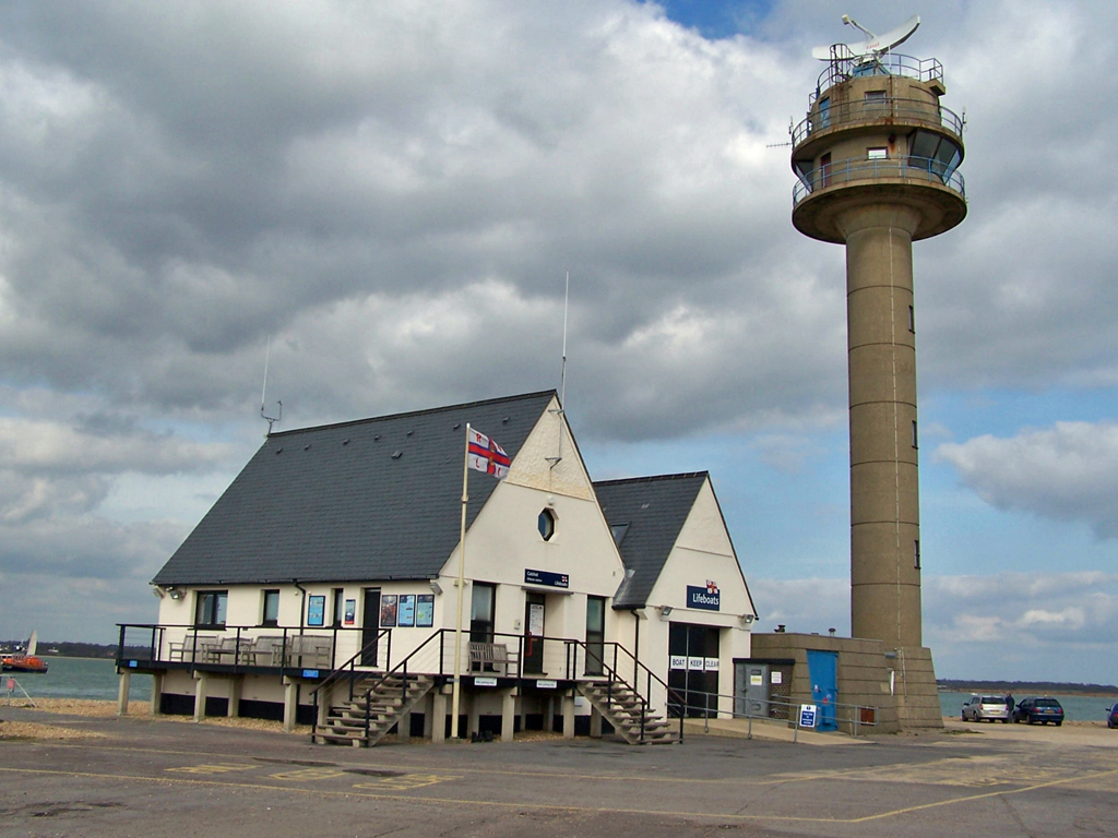 Marine emergency services, Calshot The Royal National Lifeboat Institution and the Maritime and Coastguard Agency UK have these modern facilities at the tip of Calshot spit. The facilities cater for the busy waters of the Solent and Southampton Water.